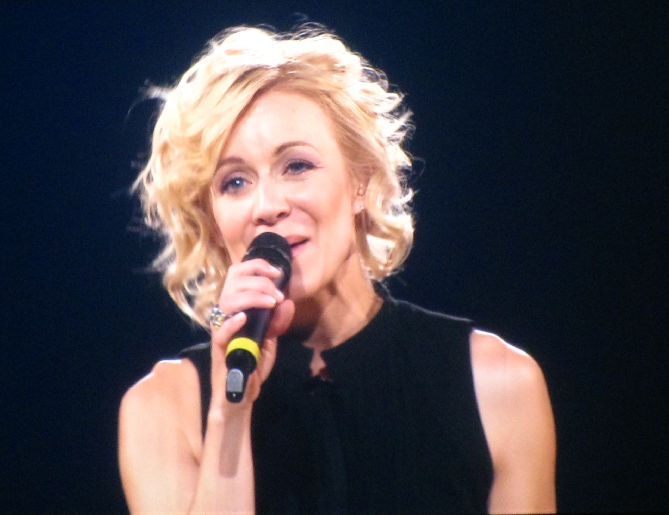 Véronic Dicaire at Celine Dion 'Taking Chances Tour' Concert @ Bell Centre, Montreal, Canada in August, 2008.